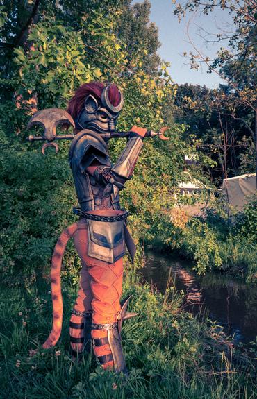 Propmaker Folkenstal, photoshooting at a medieval market